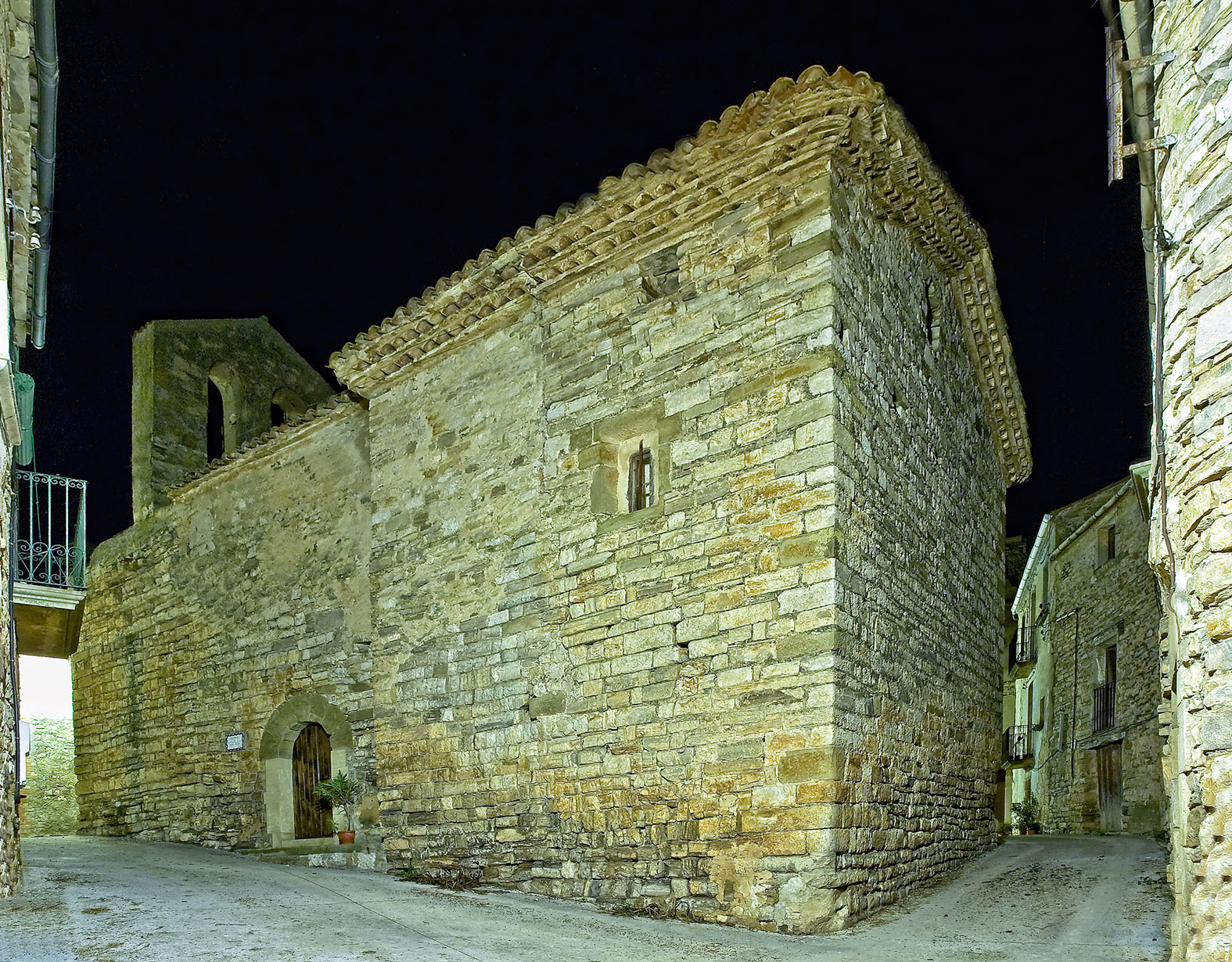 Church of Gramuntell (Catalonia, Spain)